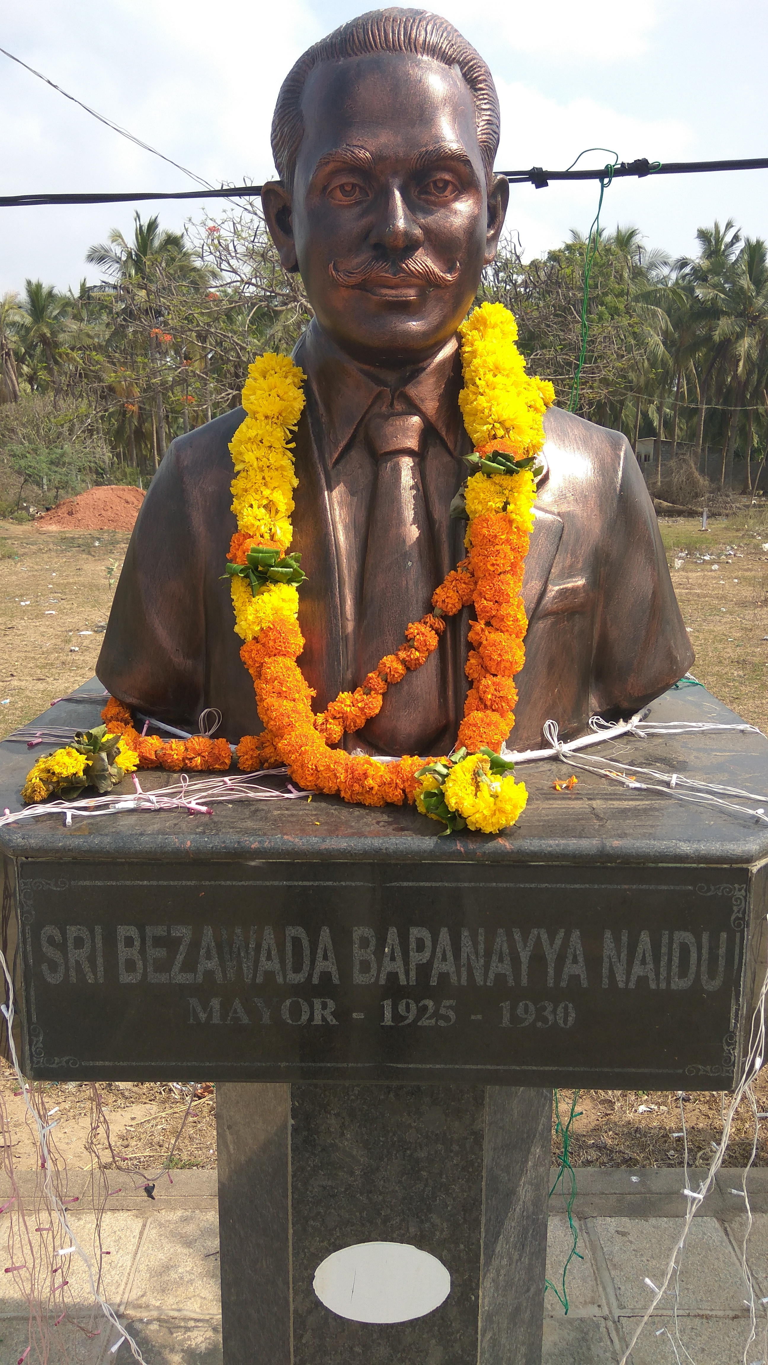 Bezawada Bapanayya Naidu, Mayor (1925 - 30)